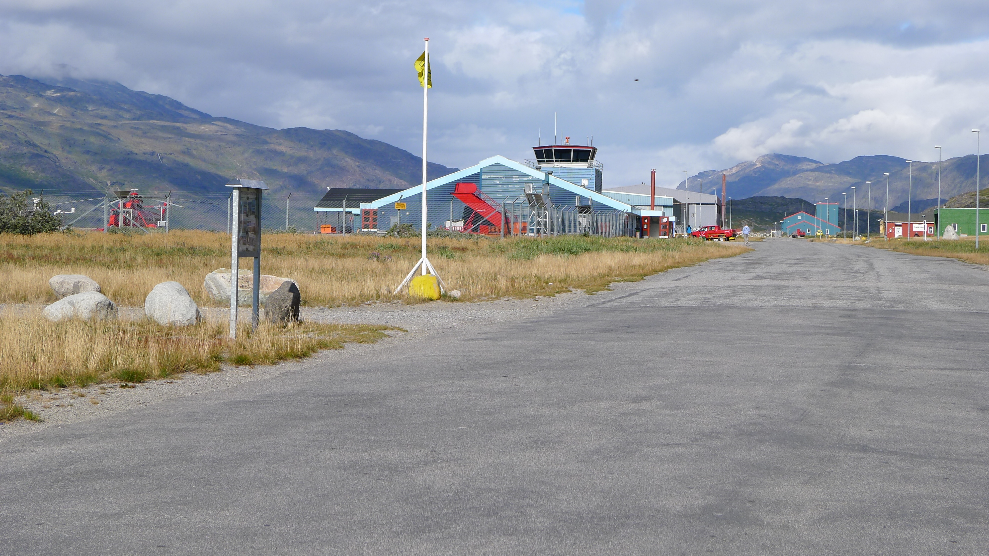 looking the other way up the main street. not much but the airport.